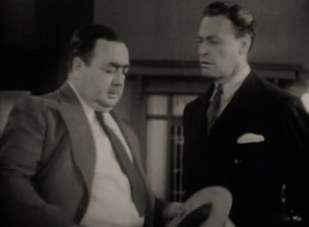 Eugene Pallette (left) and Mahlon Hamilton in Strangers of the Evening (1932) - cropped screenshot.